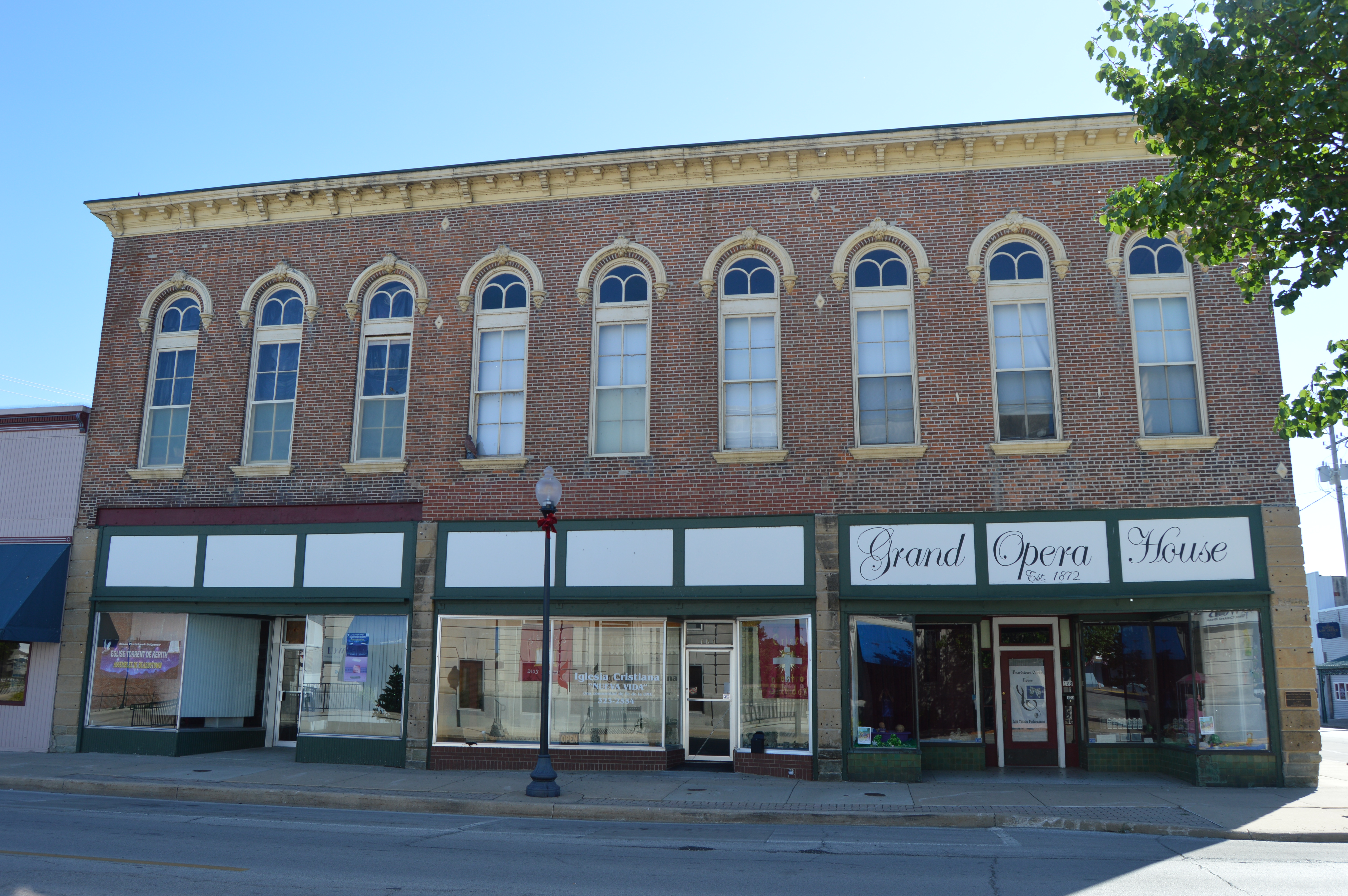 Front of the Beardstown Grand Opera House, located at 121 State Street in Beardstown, Illinois, United States. Built in 1873, it is listed on the National Register of Historic Places.